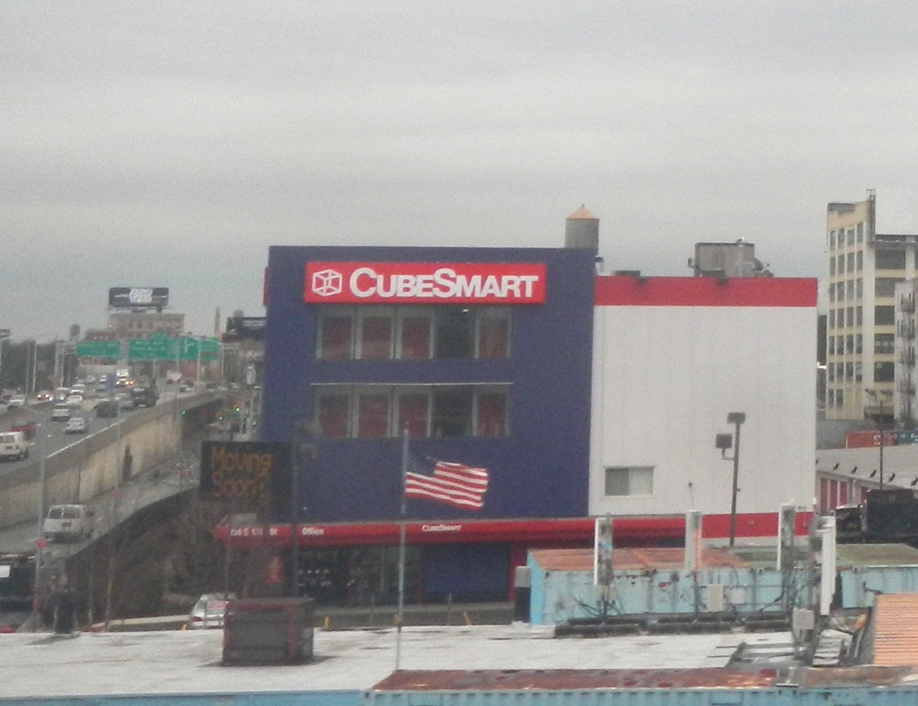 Looking east from train at Cubesmart on a cloudy afternoon.